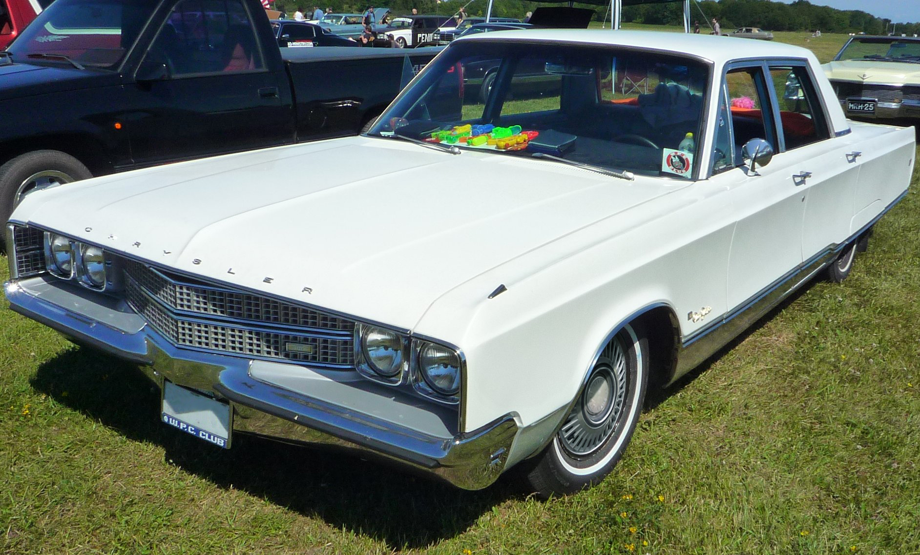 White 1968 Chrysler New Yorker four-door sedan, 440 CID V8 with 350hp